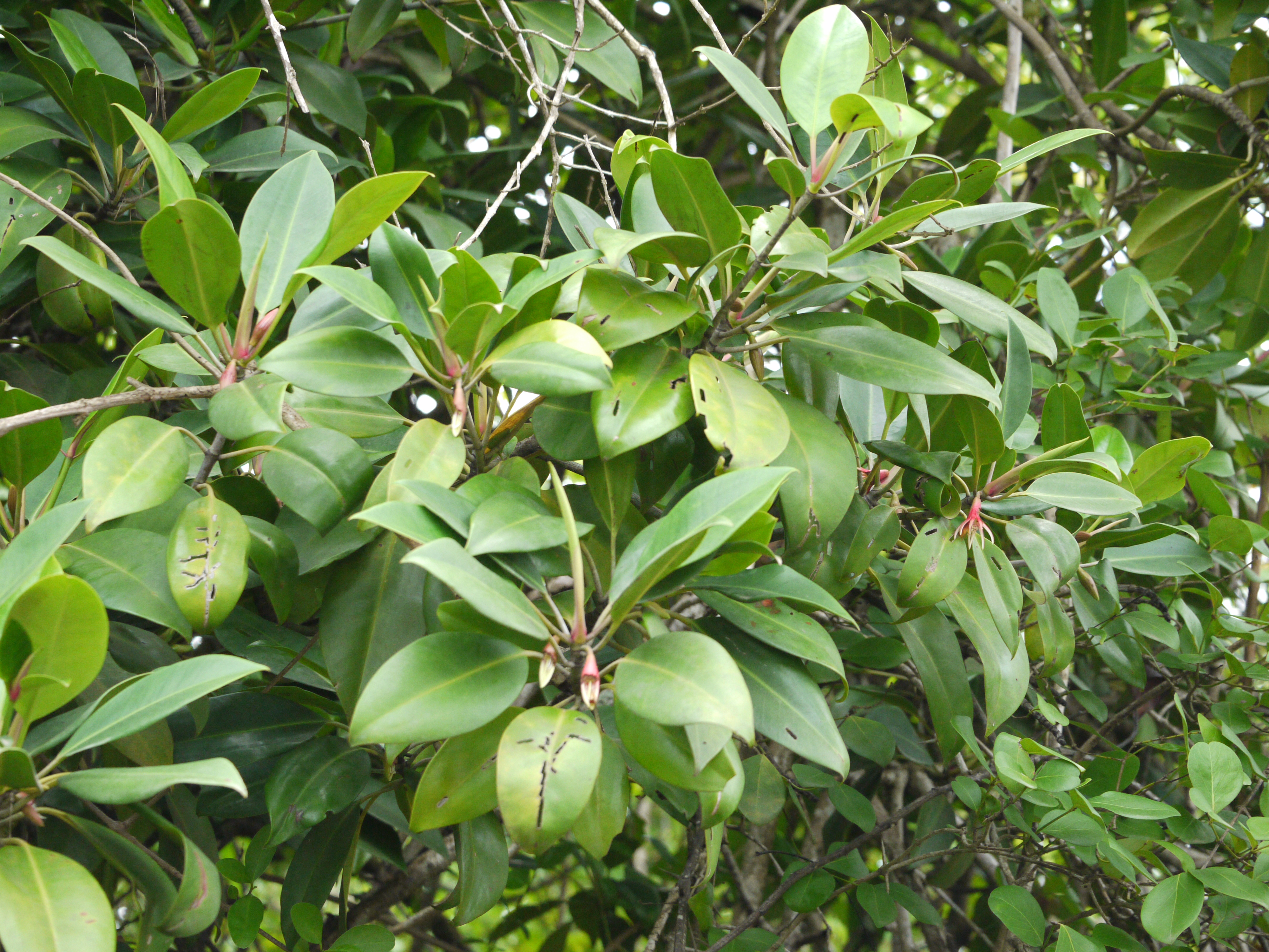 Rhizophoraceae (Burma mangrove family) » Bruguiera gymnorrhiza (L.) Savigny broog-wee-ER-a -- named for Jean Guillaume Bruguiere, French biologist and explorer jim-no-RY-zuh -- from the Greek gymnos (naked) and rhiza (root) commonly known as: black mangrove, Burma mangrove, large-leafed mangrove, oriental mangrove • Bengali: kankra, natinga • Gujarati: સનવર sanavar • Kannada: ಕೊಳಚೆ ಗಿಡ kolache gida • Konkani: इंप्ळी impli • Malayalam: കണ്ടല്‍ kantal • Marathi: झुंबर zumbar • Oriya: banduri • Tamil: sigapukokandam • Telugu: దుద్దుపొన్న dudduponna Native of: e & s Africa, e Asia, India, Sri Lanka, Indo-China, Malesia, n & e Australia, w Pacific References: Flowers of India • bioSearch v 1.2 • NPGS / GRIN • ENVIS - FRLHT